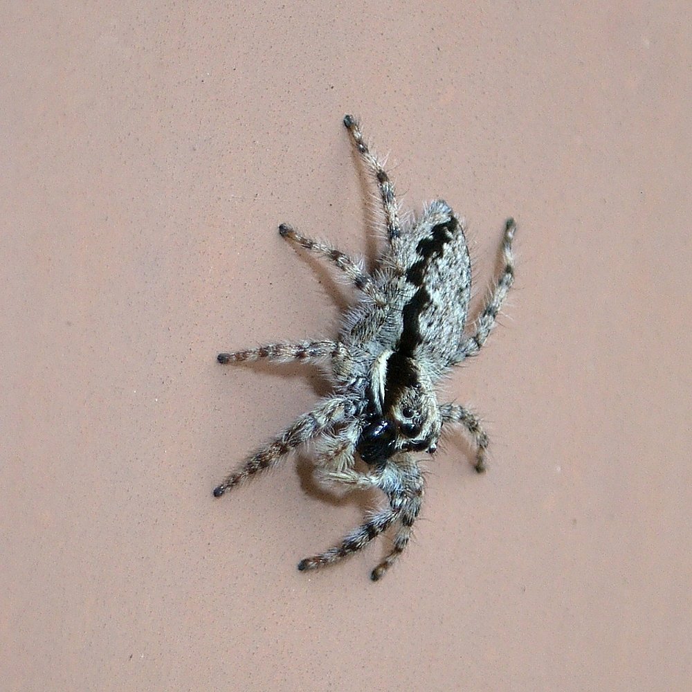 シラヒゲハエトリ Menemerus fulvus Location 神戸市西区 Nishi-ku, KOBE, Japan Copyright OpenCage